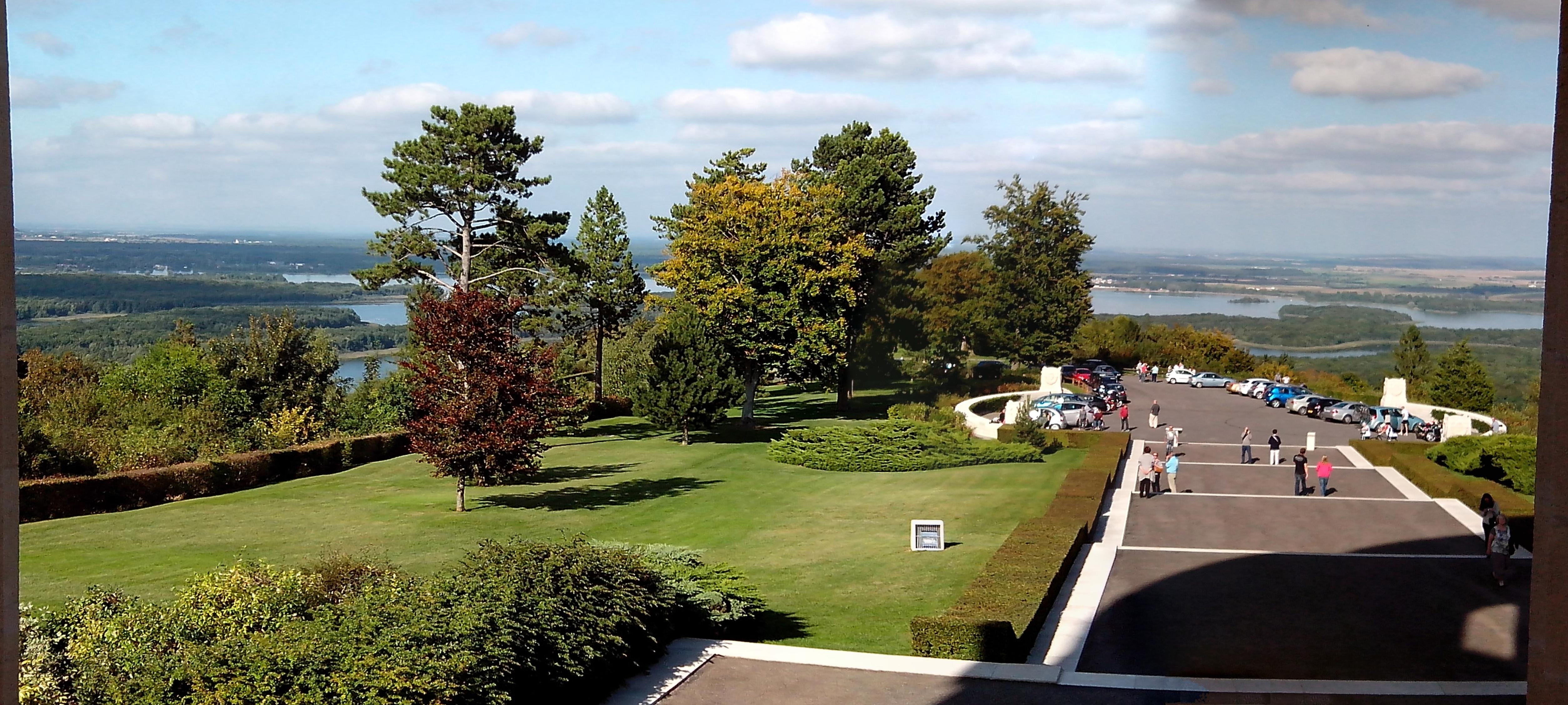 Panoramic view from Butte de Montsec on Lac de Madine